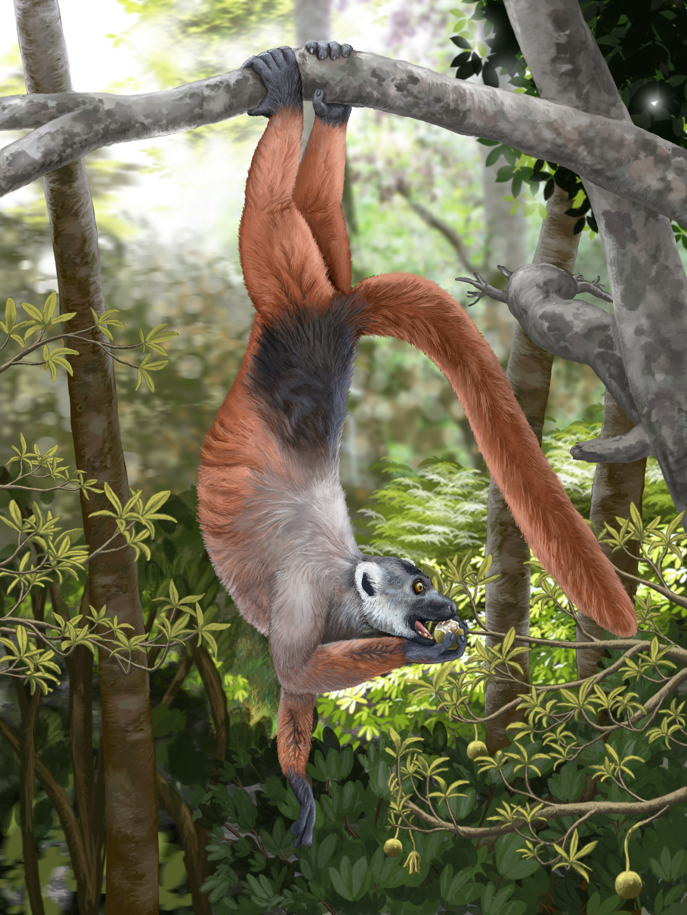 Life restoration of Pachylemur insignis. Based on photograph of skull, photograph of skeleton[1], restoration by Stephen Nash, and correspondence with Dr. Laurie Godfrey.